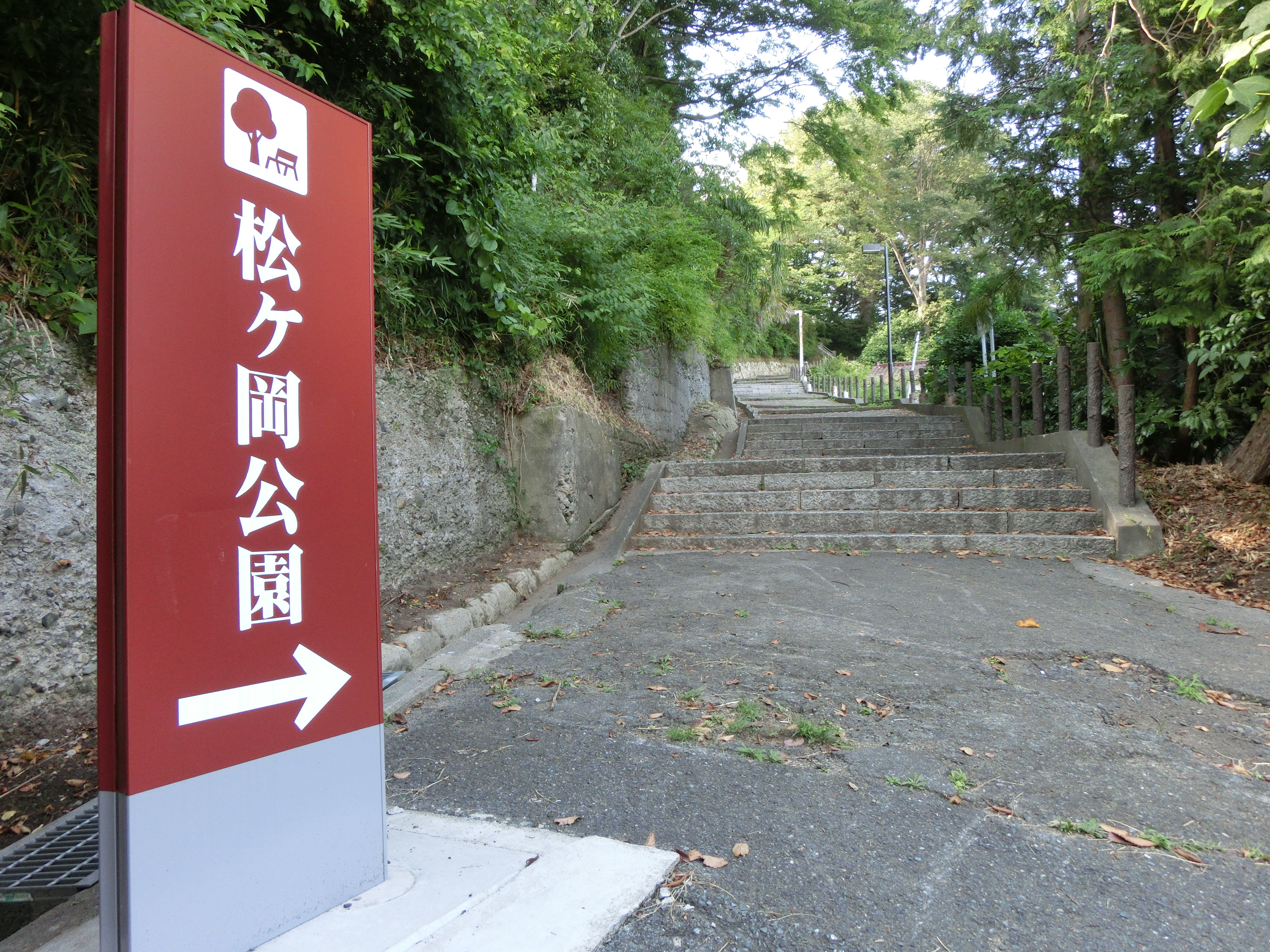 East entrance to Matsugaoka Park